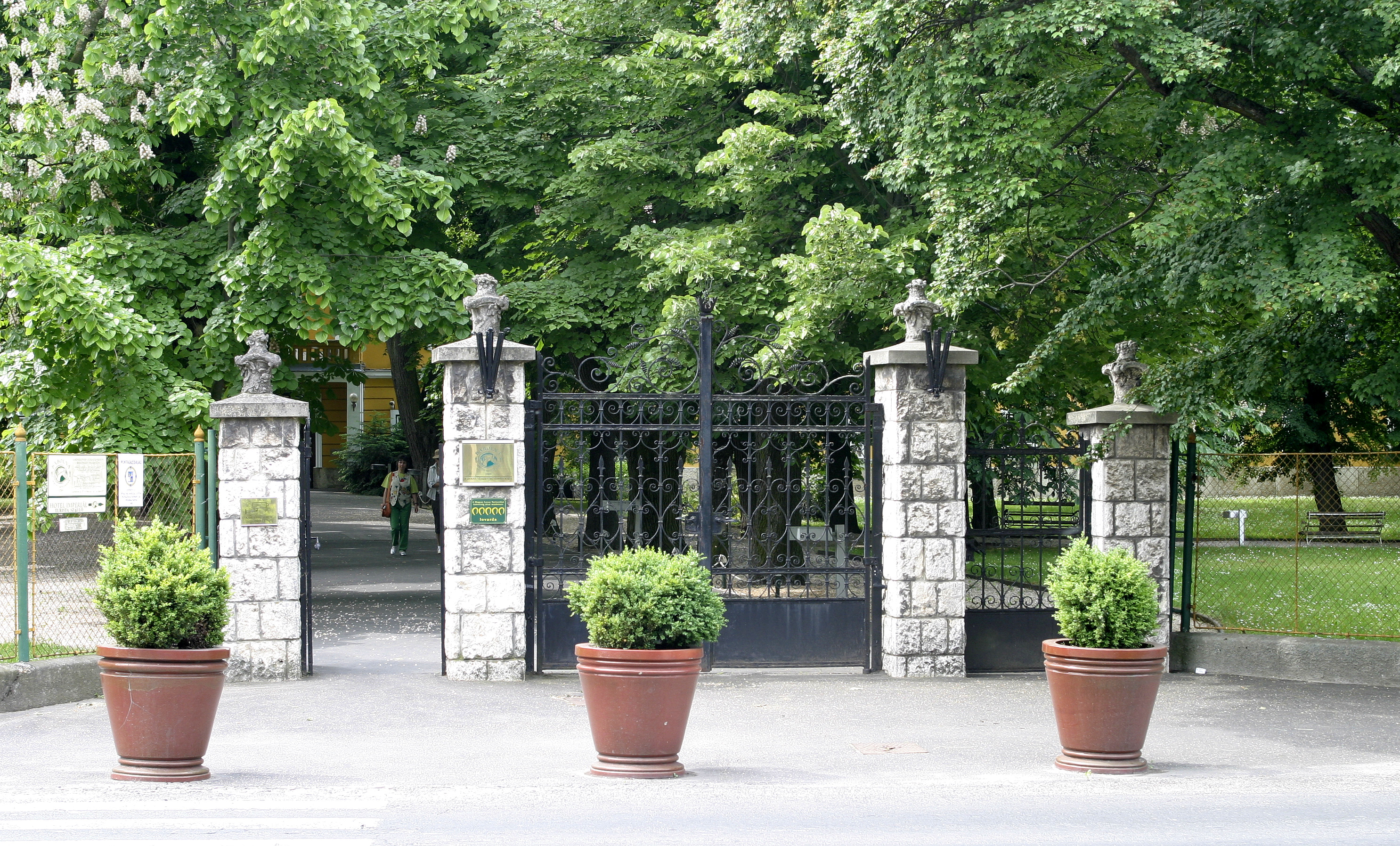 Entry portal of the stable area of the national stud at Bábolna/Hungary